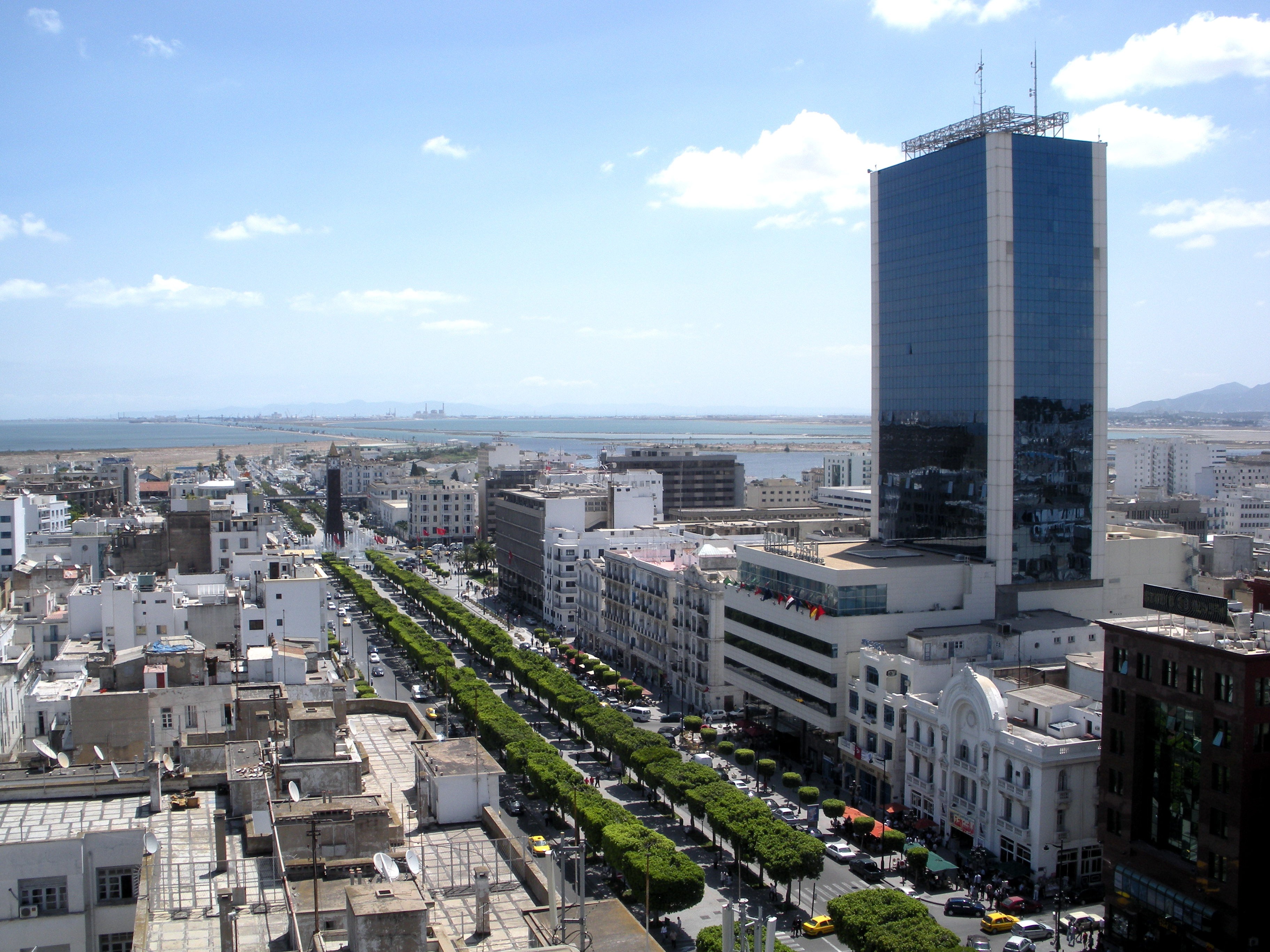 Tunis' Avenue Habib Bourguiba looking north towards the port of Tunis (La Goulette) and the Mediterranean Sea.